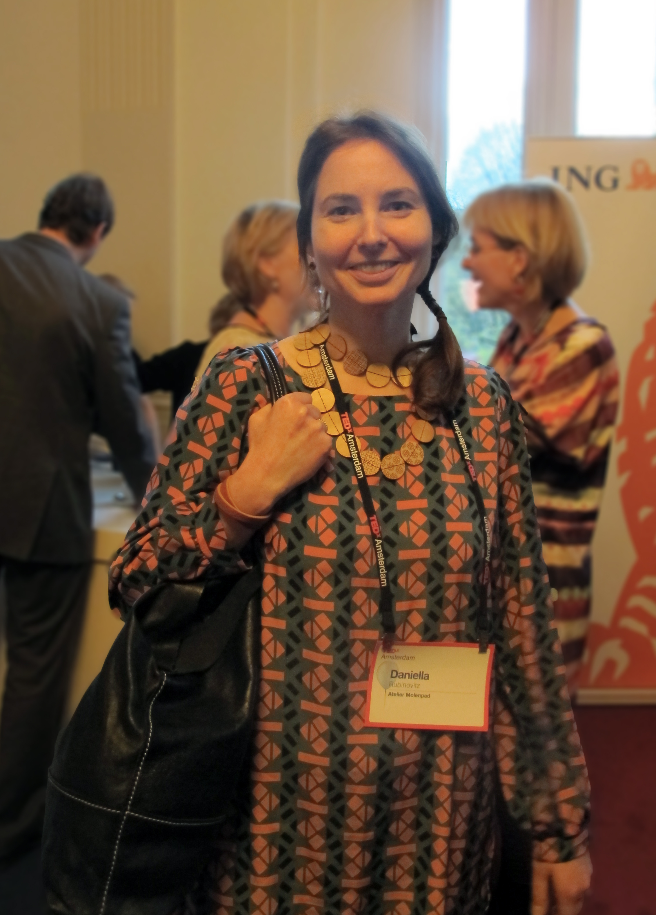 Daniella Rubinovitz at TEDxAmsterdam